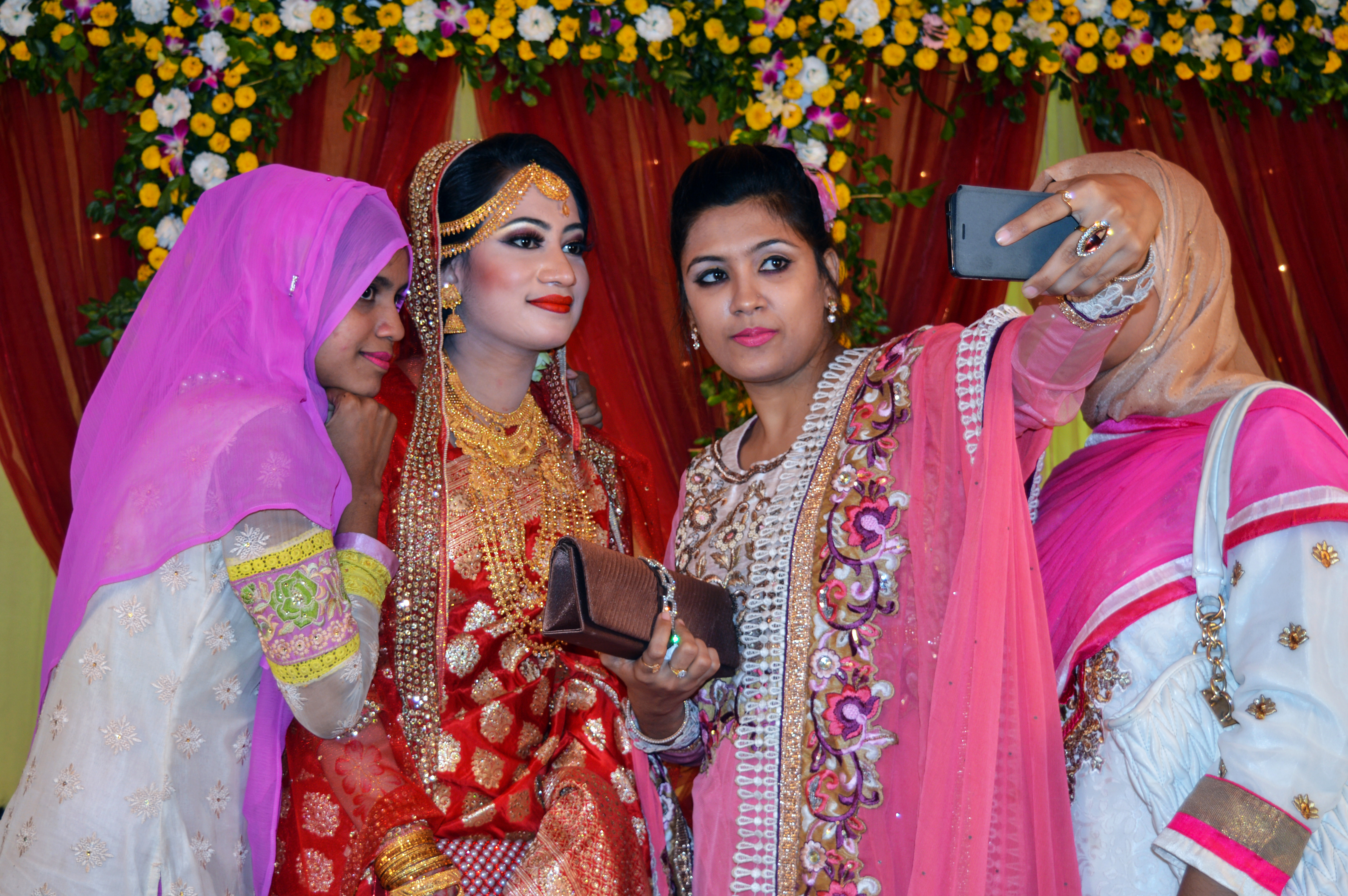 Bangladeshi women taking Selfie at wedding ceremony